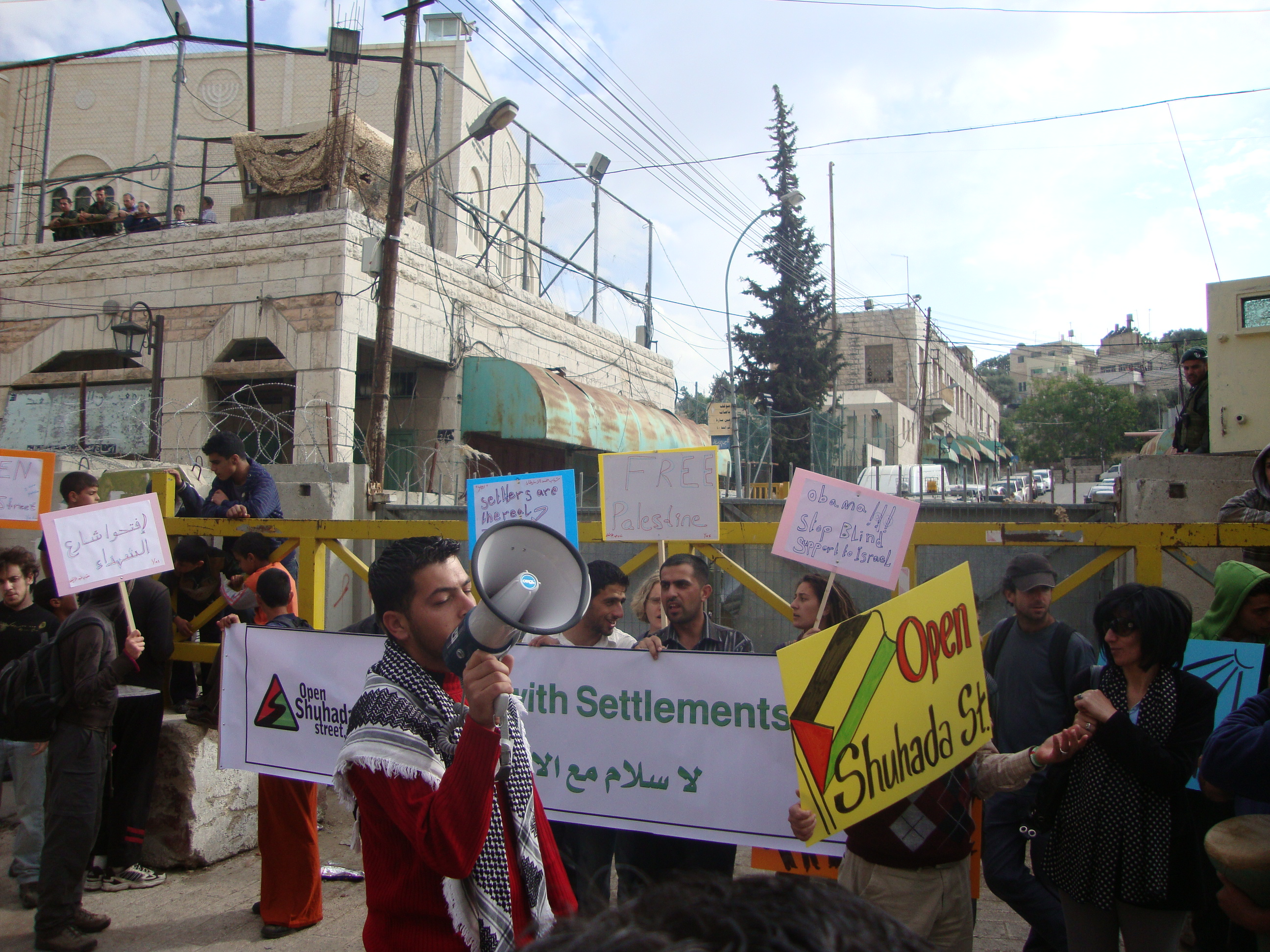 People demonstrate in 2010 for reopening of the Al-Shuhada Street in Hebron. Once the main market street in Hebron, it was closed for Palestinians in 1994, after the Jewish settler Baruch Goldstein shot and killed 29 and wounded 125 Palestinians. It was partially reopened between 1997 and 2001. On 21 February 2014, the Fifth annual Open Shuhada Street demonstration took place in Hebron. The first one on 25 February 2010. The page on Flickr states that this picture was taken on 1 May 2010, most probably at this (weekly) demonstration.